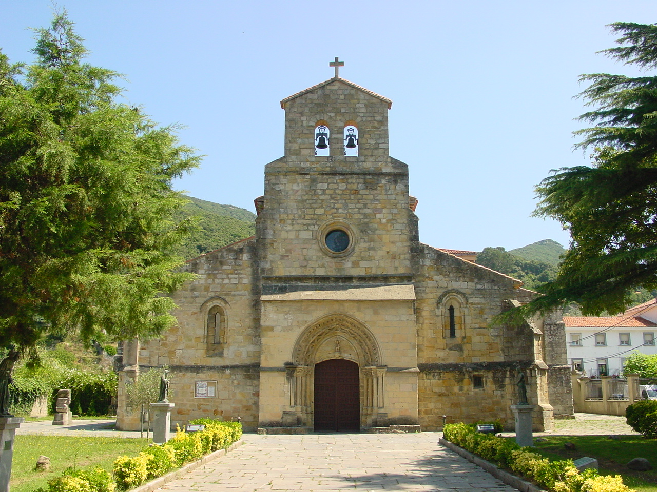 Church of Santa María del Puerto 13th century, Santoña (Cantabria, Spain)